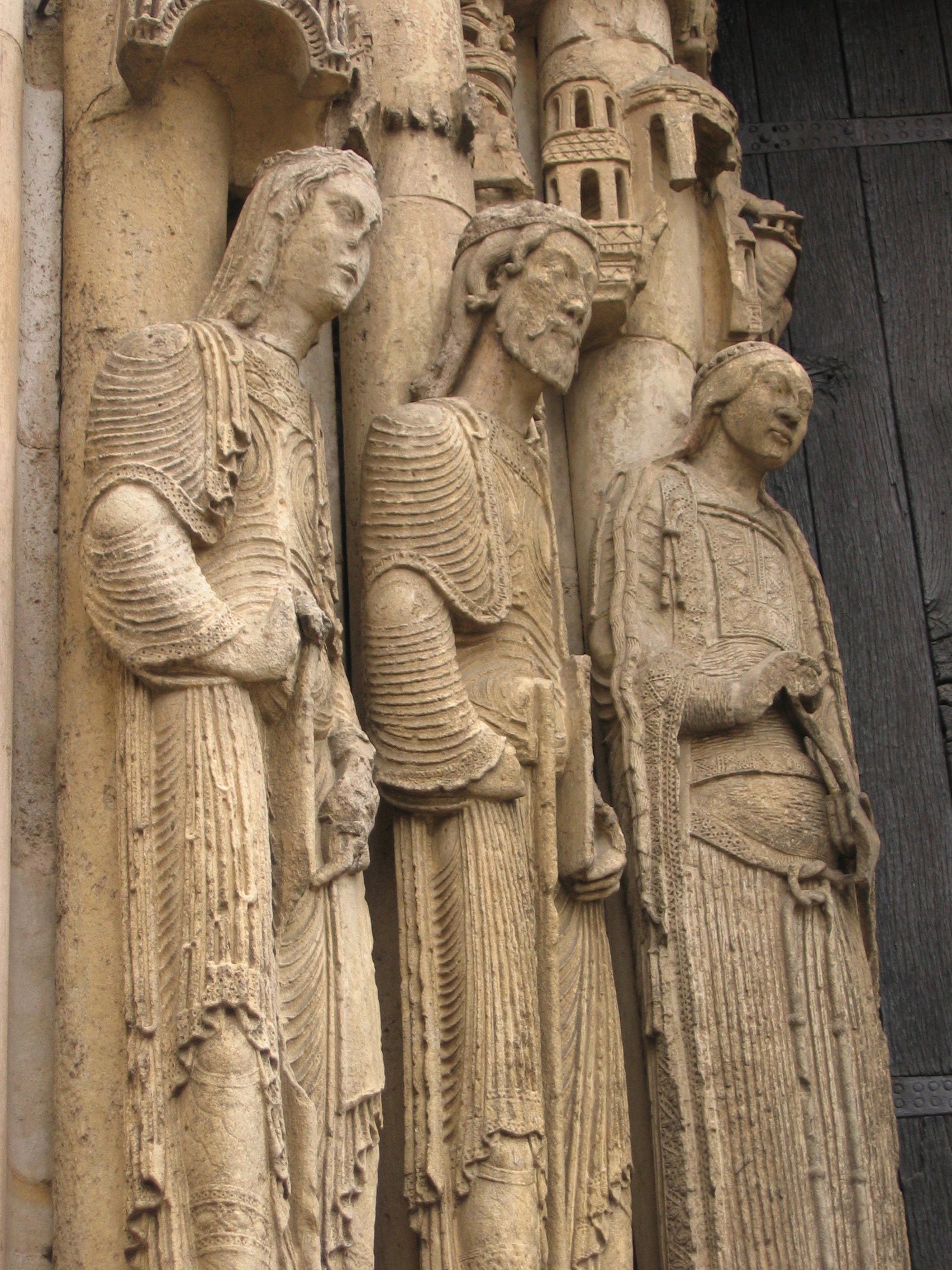 Sculptures on the exterior of the Cathedral of Notre-Dame de Chartres. 1130-1160.